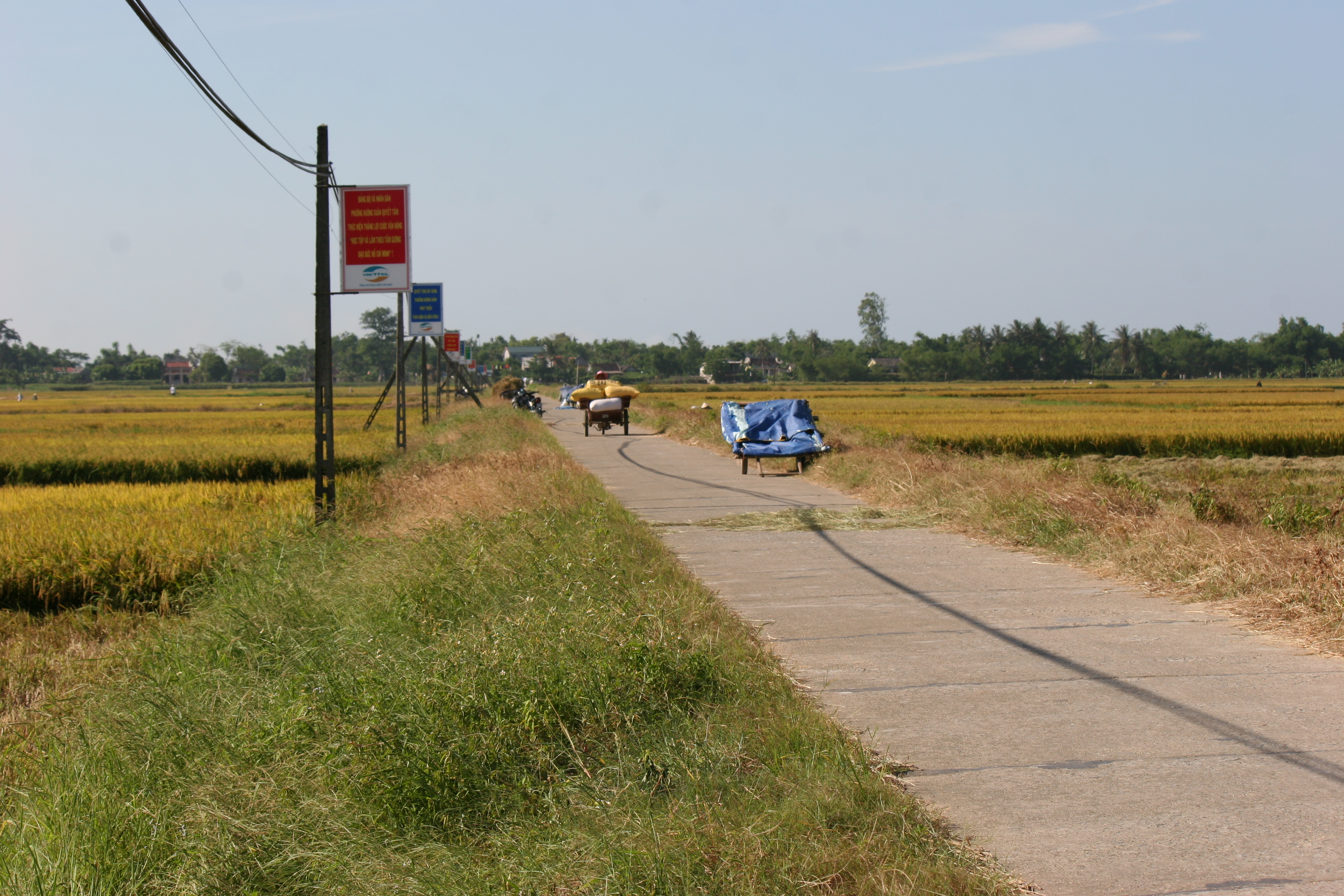 Đường Quê Làng Thanh Lương vào Ngày Mùa thu hoạch lúa vụ mùa Tây Xuân.